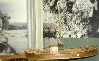 Mokshan old river boat